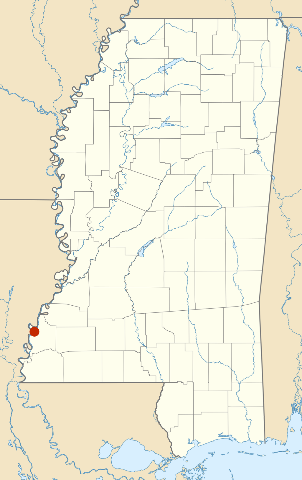 Location map of Mississippi, USA Equirectangular projection, N/S stretching 120.0 %. Geographic limits of the map: * N: 35.2° N * S: 29.9° N * W: 91.9° W * E: 87.9° W This map was created with GeoTools. Red dot shows approximate location of the Natchez Massacre in November 1729, near the city of Natchez, along the Mississippi River Position: [1]